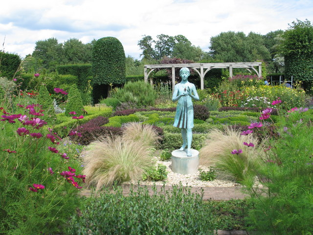 Waterperry Gardens The village of Waterperry lies 7 miles (11 km) east of Oxford on the border with Buckinghamshire. Waterperry House is the former home of the Curson and Henley families, representatives of which lie in the adjacent private grave-yard. The House, which stands in 8 acres of attractive gardens, is a hybrid of architectural styles; originally a 17th century mansion, it was remodelled in the 18th and 19th centuries. The Formal Garden, in which this photograph was taken, is a small, yew enclosed garden. Designed in 1986, the planting reflects various historic periods from Tudor times to the present day. A traditional box knot, clipped topiary and medicinal herb garden complete the picture whose centrepiece is the serene statue (shown here) entitled 'Lamp of Wisdom' by Nathan David.